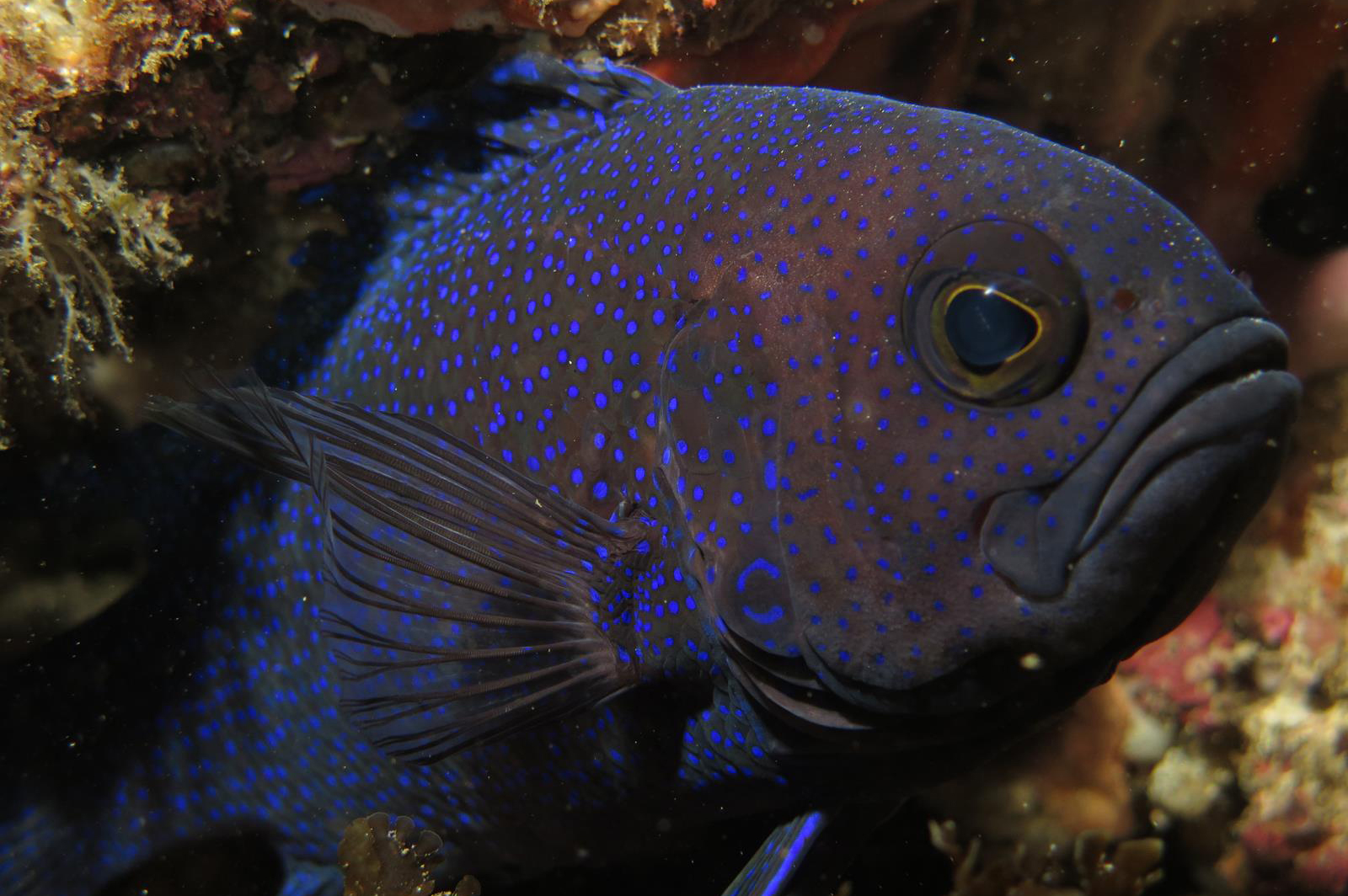 A juvenile Southern Blue Devil, Paraplesiops meleagris, at Rottnest Island, Western Australia